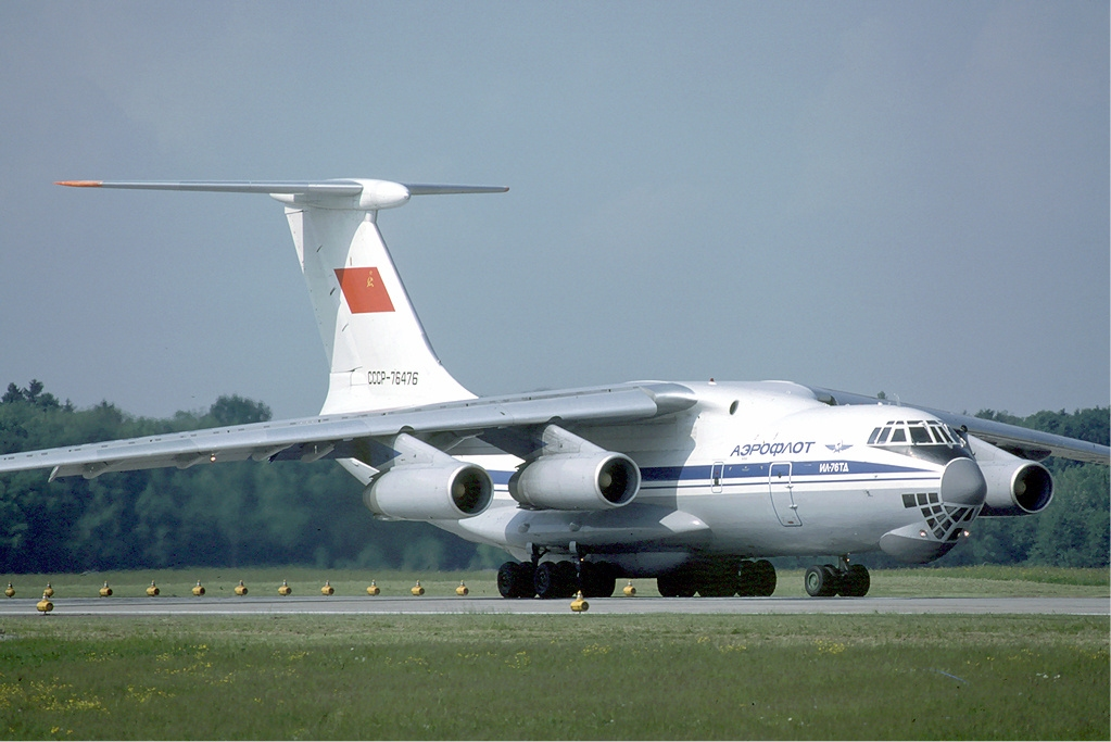 Ilyushin Il-76TD of Aeroflot at Zurich Airport